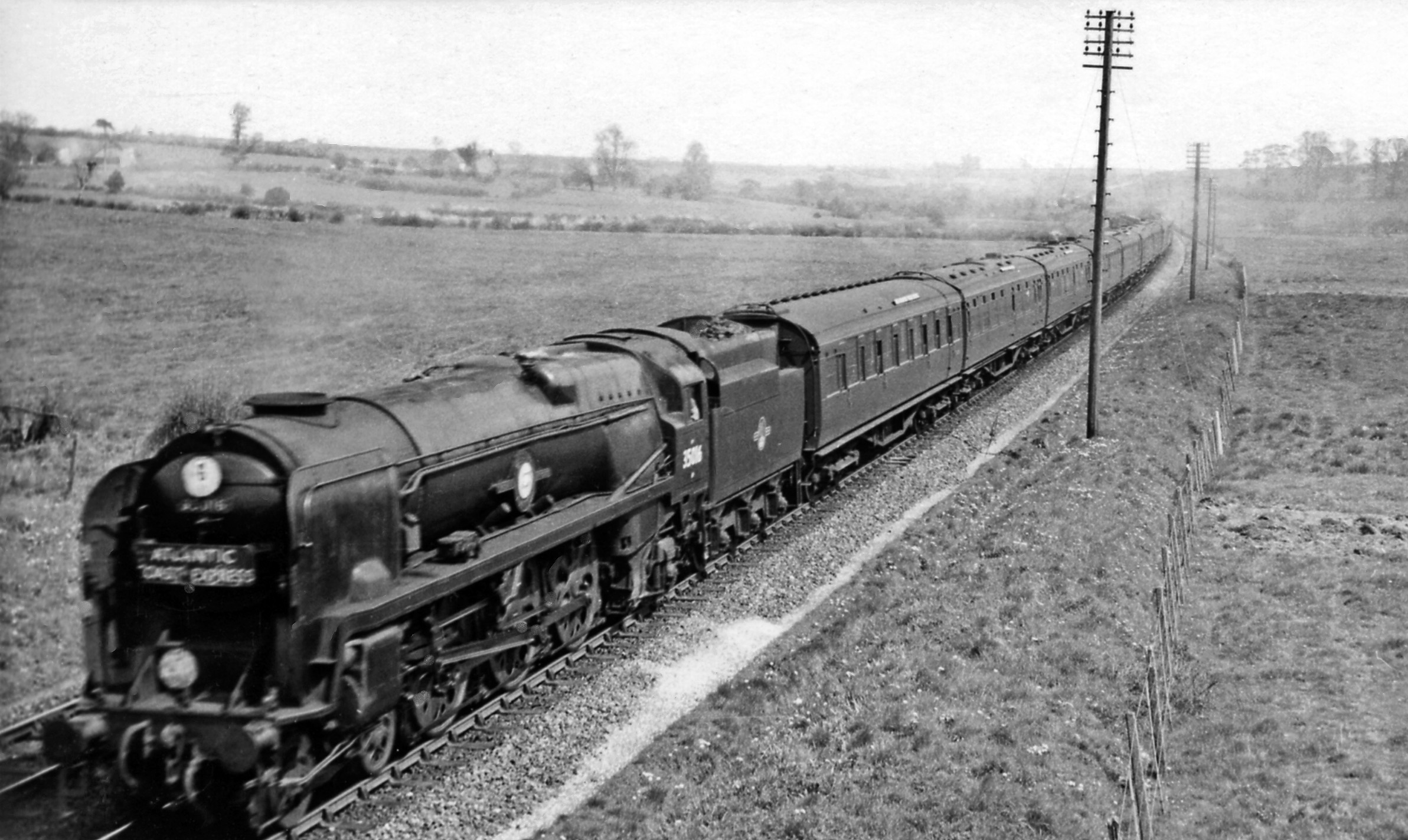 Down Atlantic Coast Express west of Tisbury. View eastward, at the same place and date as ST9227 : Down freight for Exeter near Tisbury. The 11.00 from Waterloo is bound for Exeter, also Sidmouth and Exmouth, then - separately - Ilfracombe, Torrington, Padstow, Bude and Plymouth (Friary). The rebuilt Bulleid Pacific, No. 35016 'Elders Fyffes' (built 3/45 as 21C16, rebuilt 4/57, withdrawn 8/65), is working the Salisbury - Exeter leg - and going a little too fast for my camera shutter.